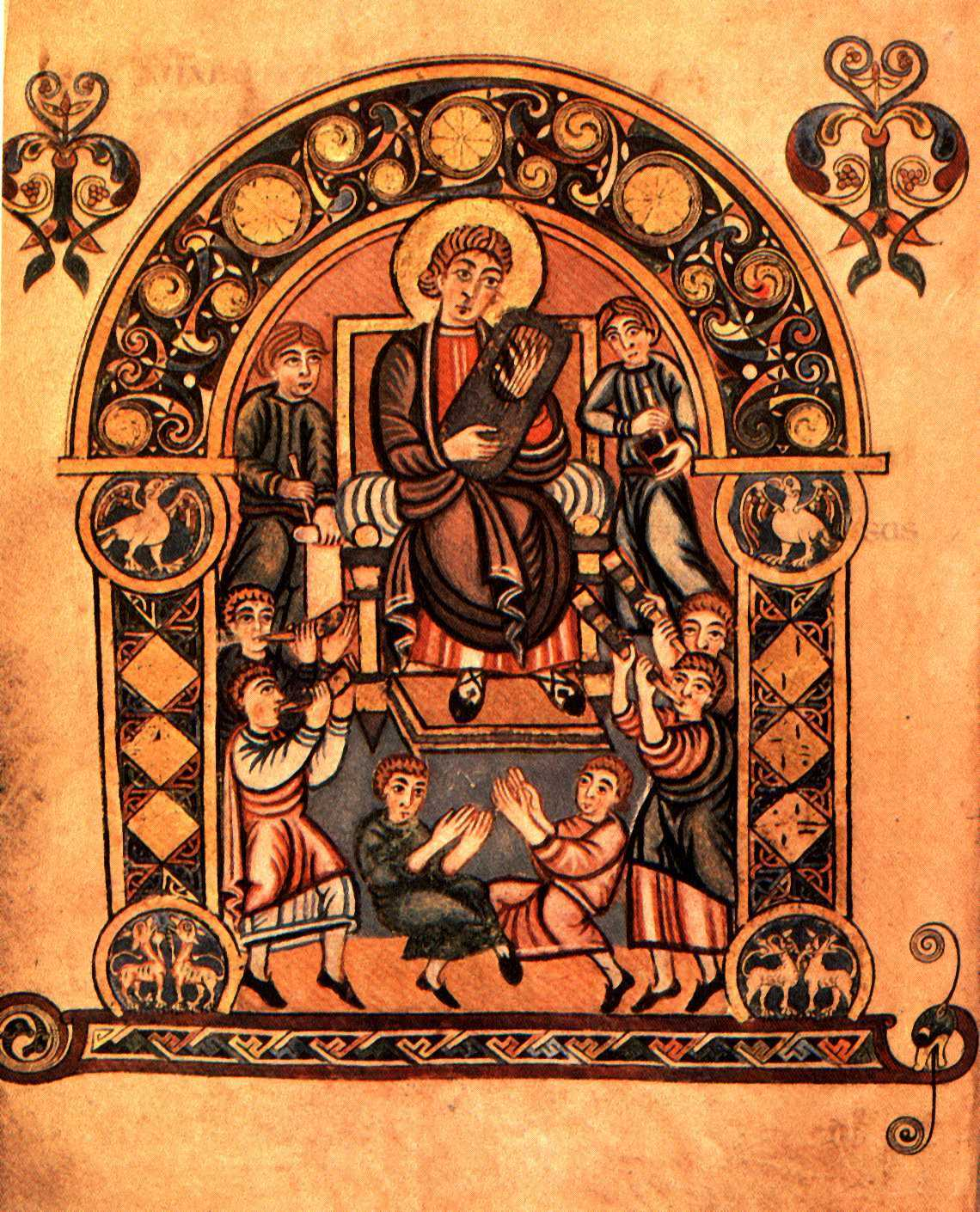 Folio 30v from the Vespasian Psalter.